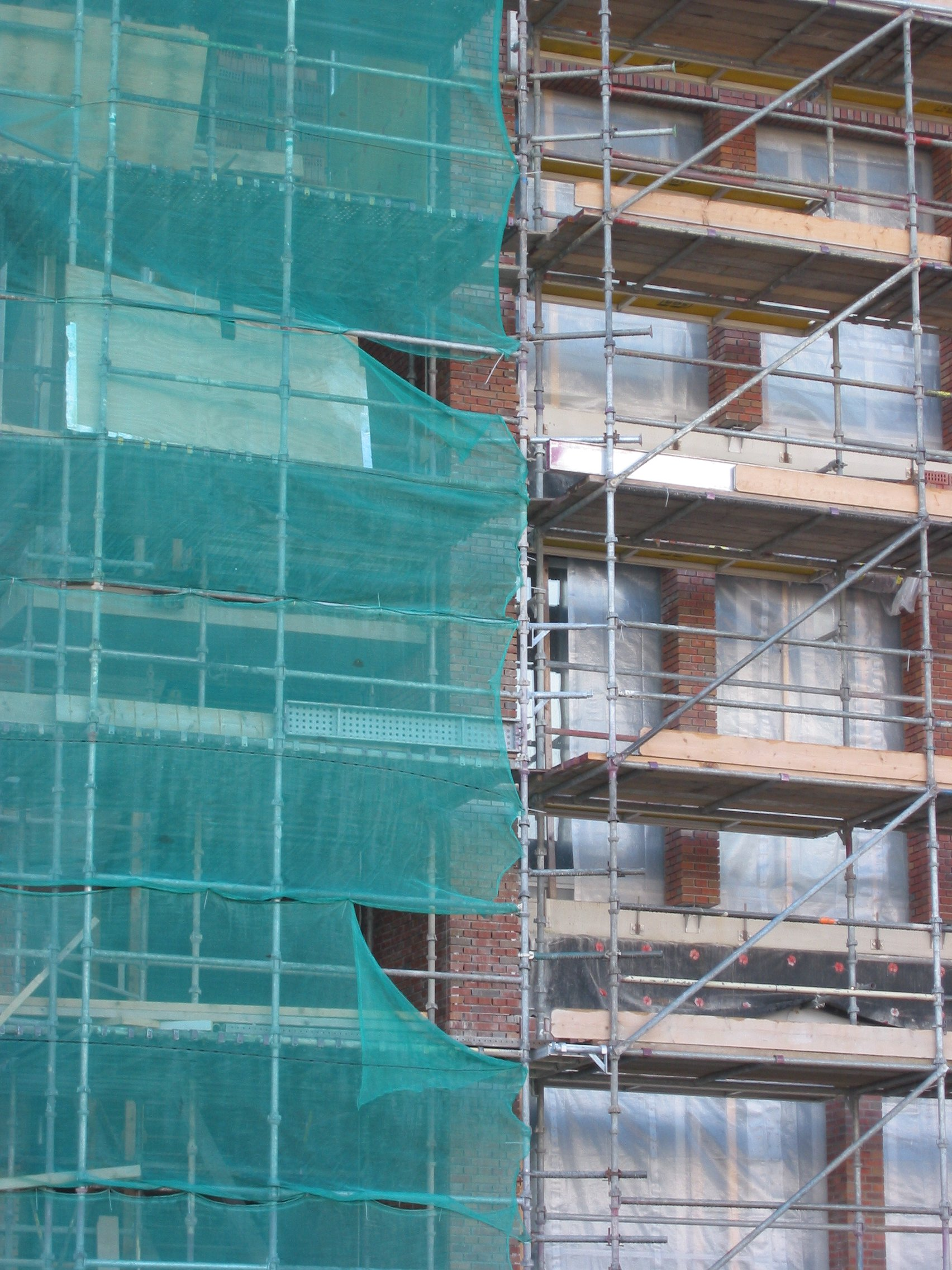 Scaffolding